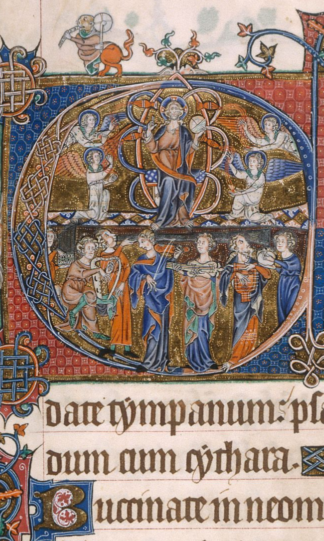 Image from the Gorleston Psalter, with medieval musicians on the bottom, Christ above. A variety of instruments are pictured (from the left) unknown, harp, singer, rebec, citole, psaltery, tambourine or drum. Estimated date of creation ranges from 1310-1324